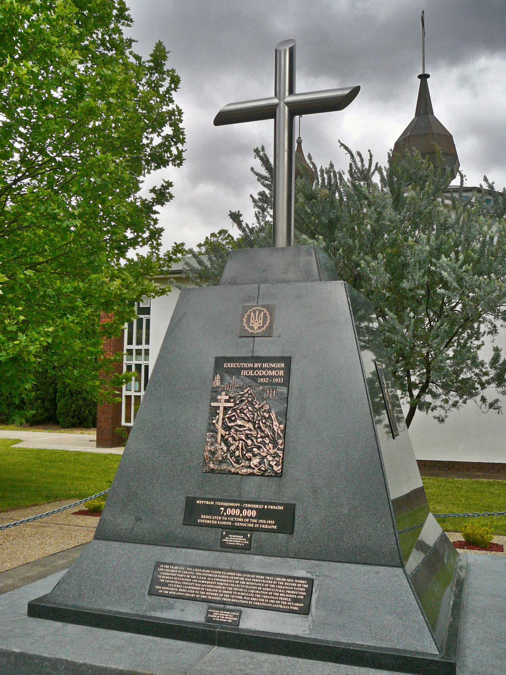 Holodomor memorial at the Ukrainian Orthodox Centre, Canberra, Australia. This was opened by the Leader of the Opposition, Mr John Howard (later Prime Minister) in 1985.